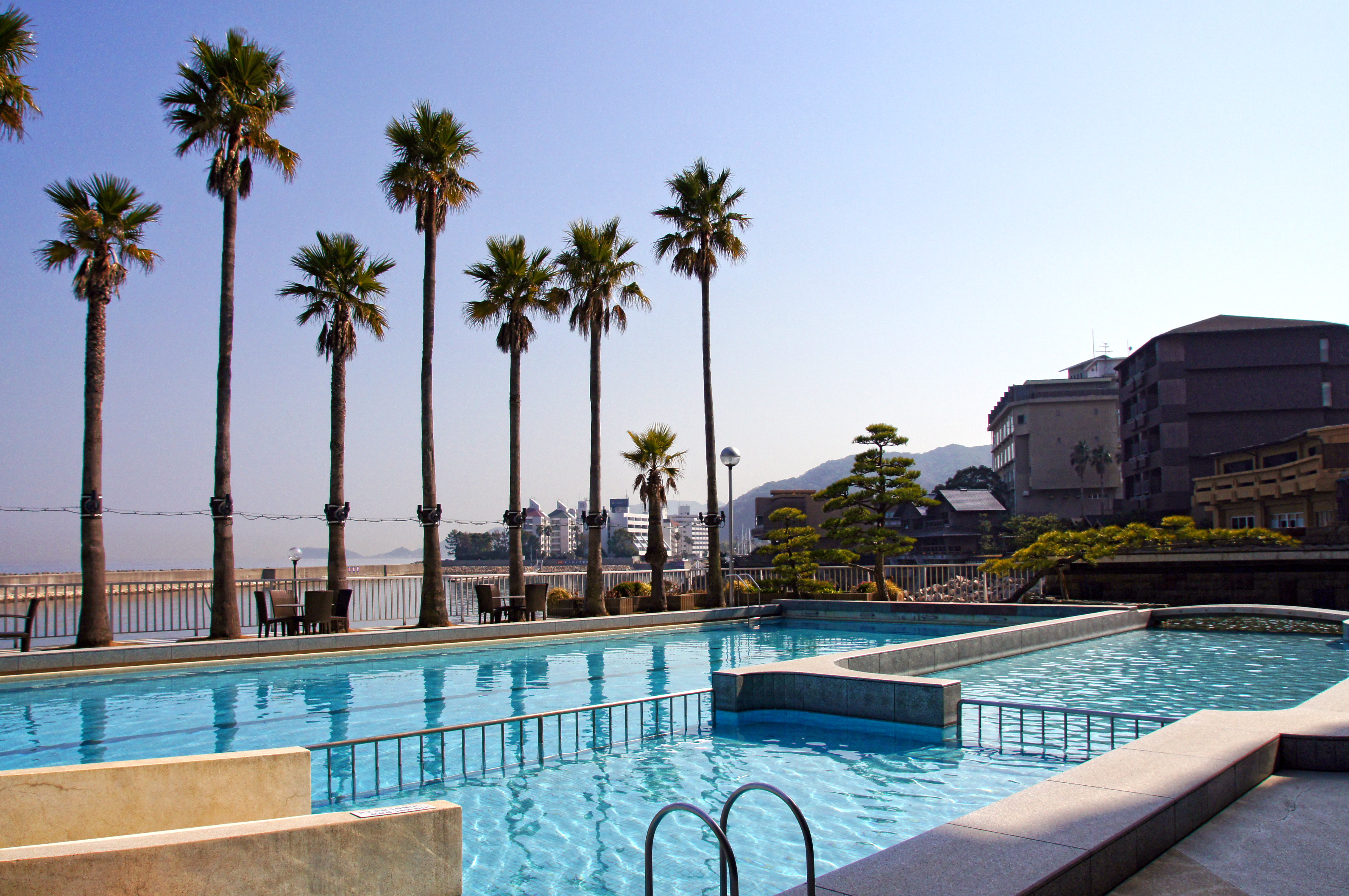 Sumoto Onsen in Sumoto, Hyogo prefecture, Japan.